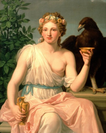 Hebe